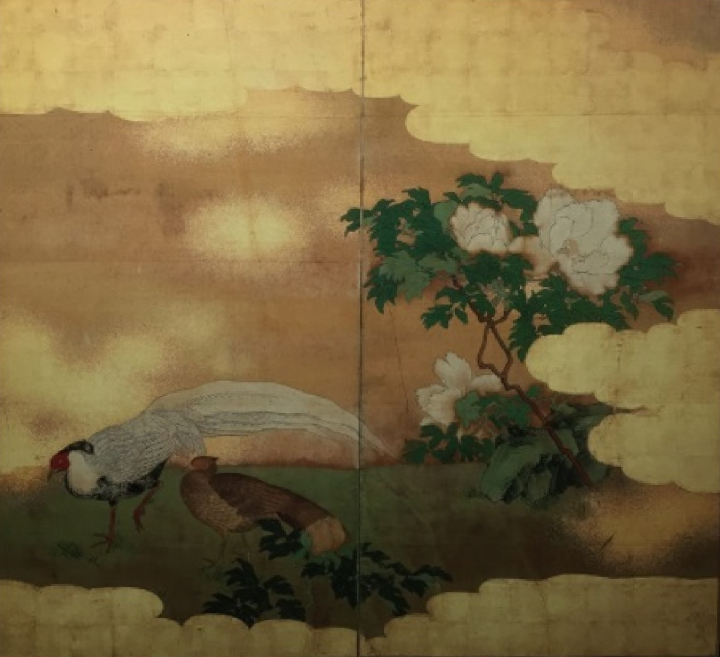 Twofold screen with birs and flowers